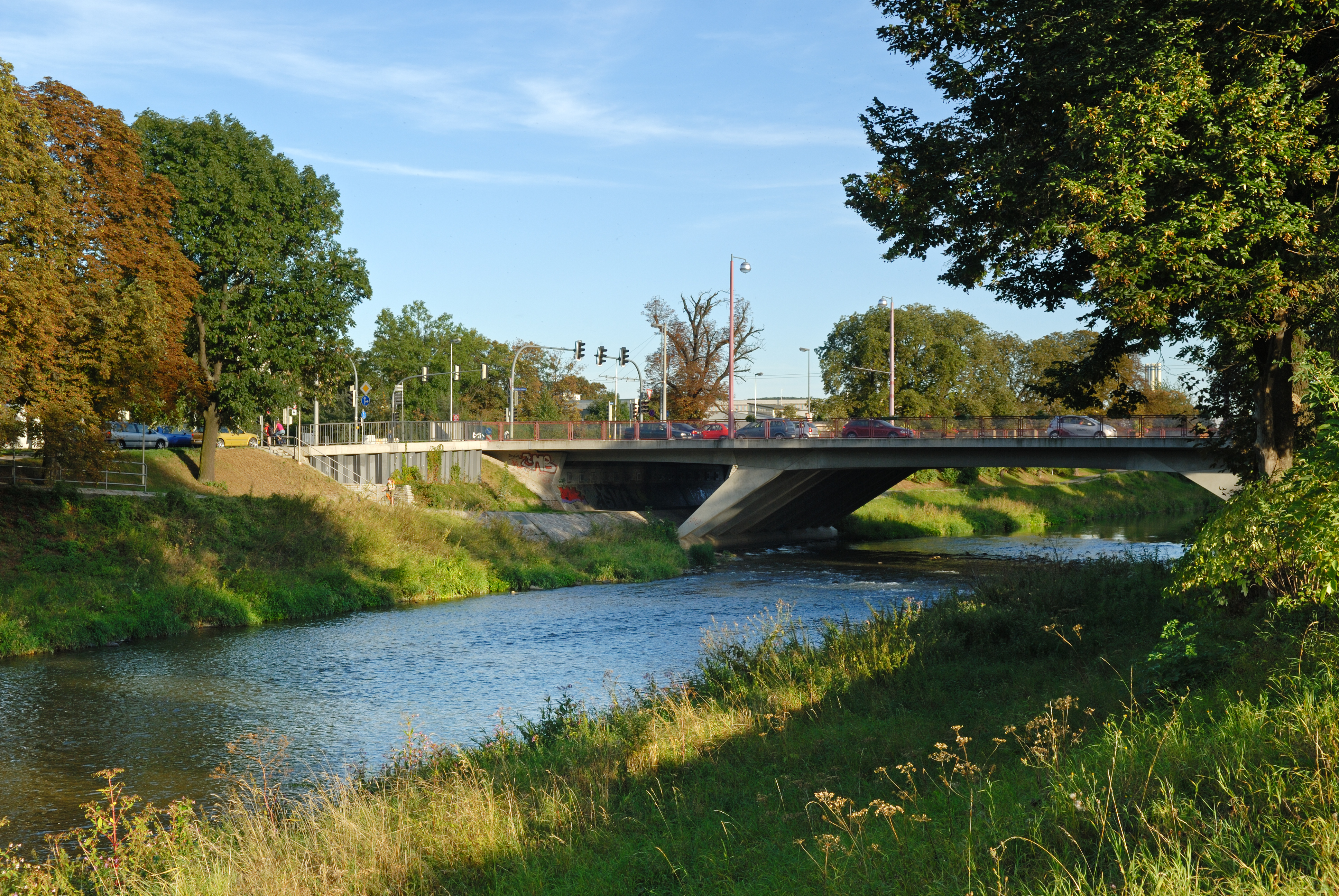 This image shows the Heinrichsbrücke ("Heinrich bridge") in Gera, Germany.